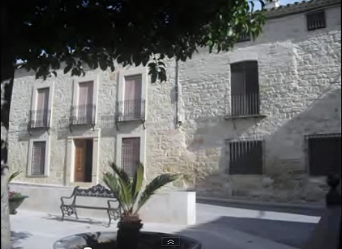 kkkkkkk